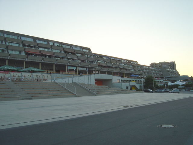 Kiel-Schilksee, buildings for the olympics in 1972